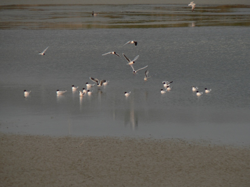 A flock of Little Gulls (Hydrocoleus minutus) in Dolní Libina, Czech Republic